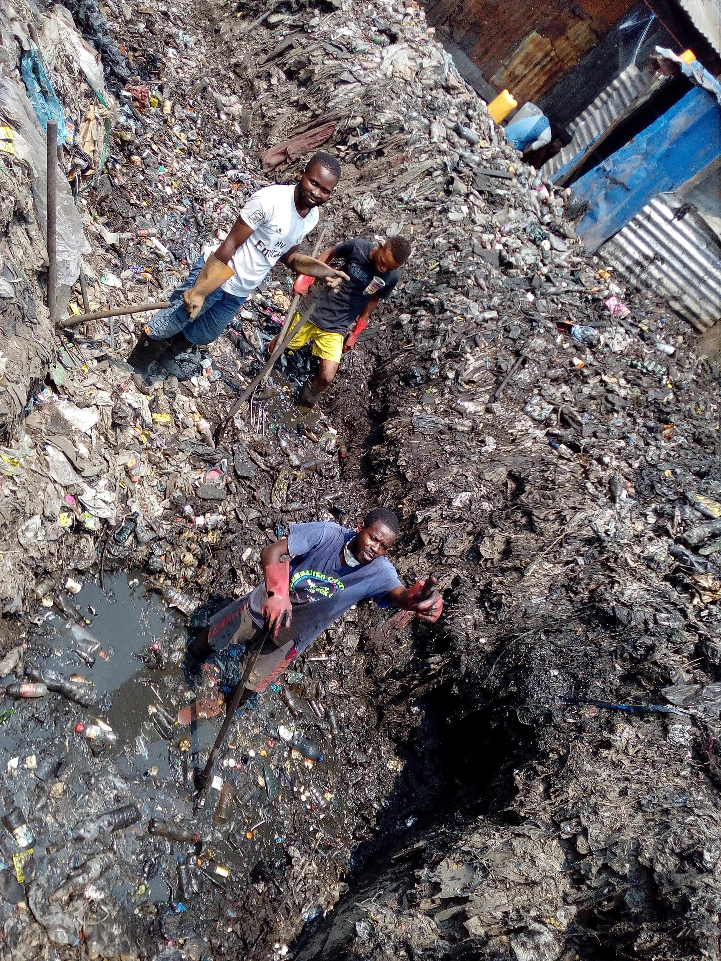 Unclogging the gutter in locality of Paka-Djuma This is an image of "African people at work" from Democratic Republic of the Congo